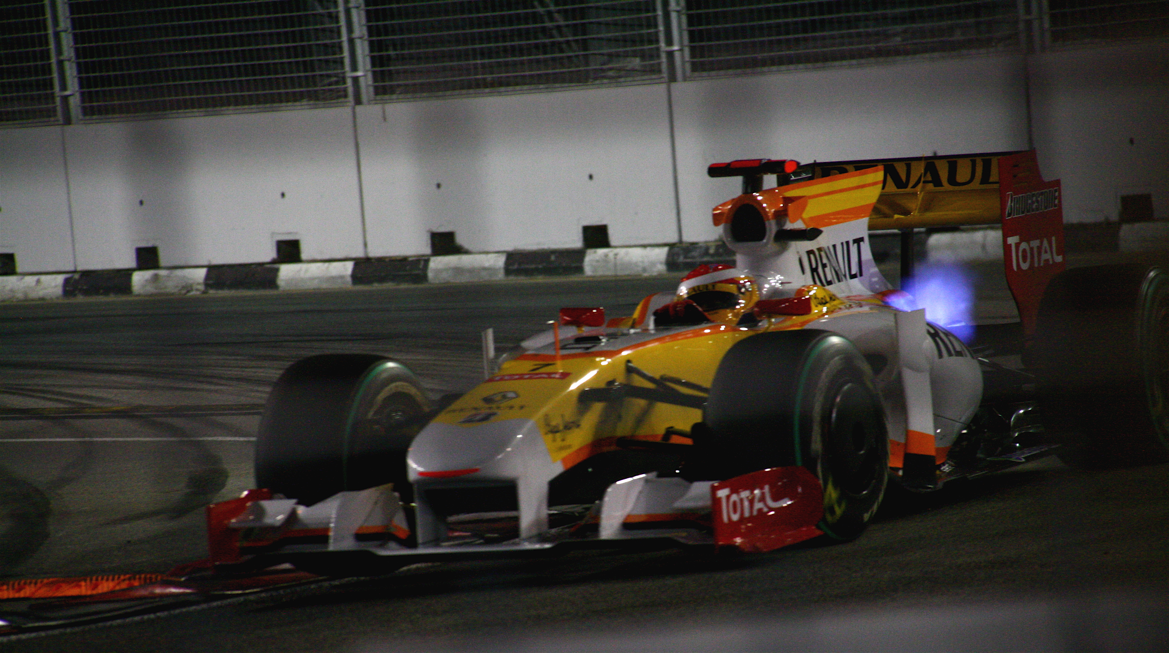 Fernando Alonso driving for Renault F1 at the 2009 Singapore Grand Prix.